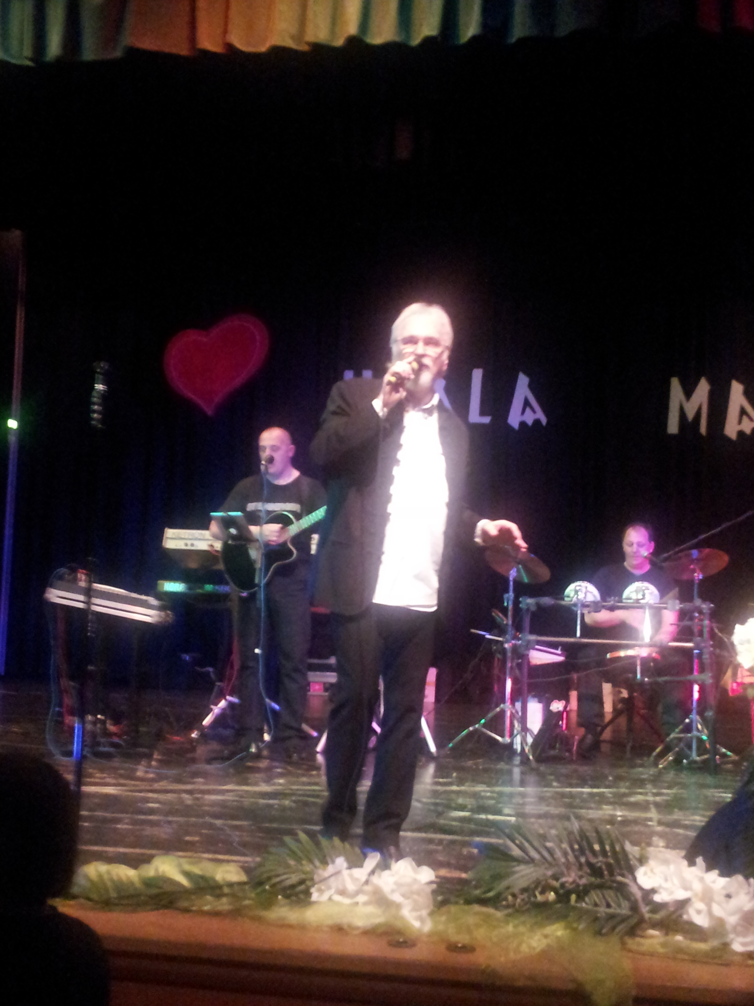 Concert 2013